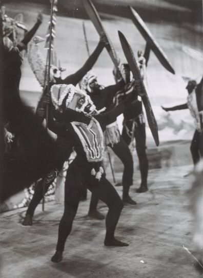 Cropped image from photograph taken at the premiere of Corroboree, a ballet written by composer John Antill and based on the real-life ceremony, at the Empire Theatre, Sydney, in about 1950. Photographer: Bill Brindle Original title: During the rain dance in Corroboree, the sky darkens, lightning flashes, thunder peels but, as so often happens in inland Australia, all this fury is followed by only a few drops of rain Source: National Library of Australia, nla.pic-an14184683-2